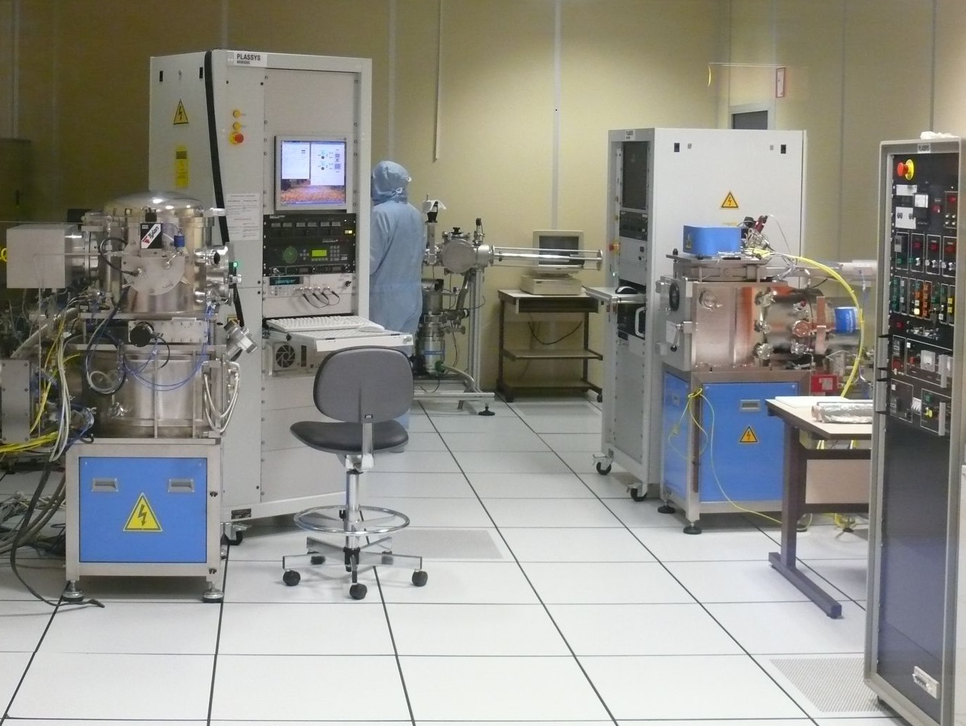 A clean room at IEMN, in Villeneuve-d'Ascq (Nord, France).